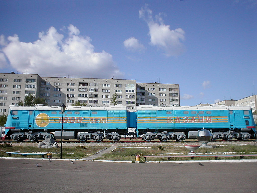 TE3 locomotive-monument on Kazan 1000 years square in Yudino locality in Kazan